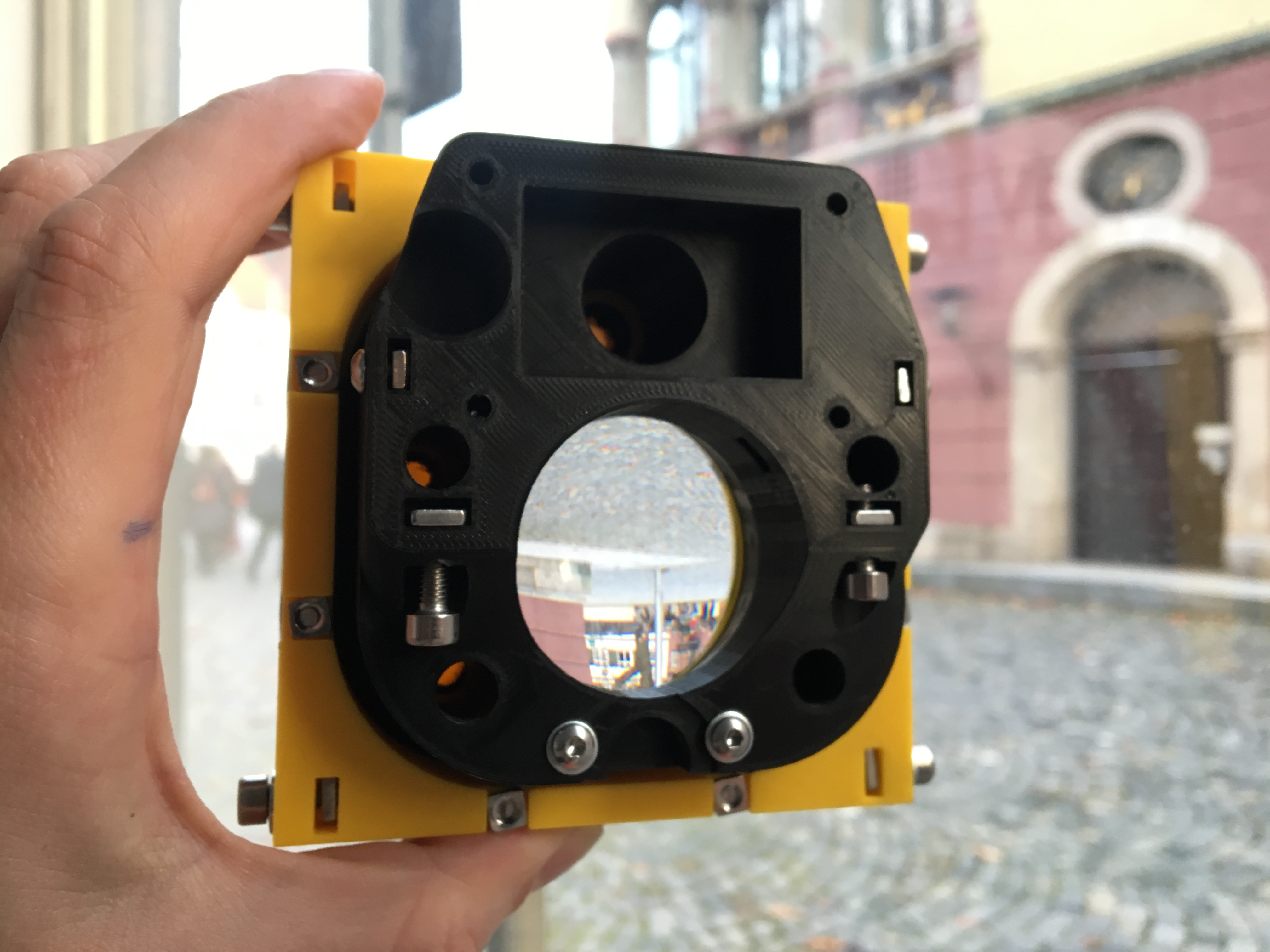 DIY Koruza prototype made from 3D-printed parts. Ulm, Deutschland, Oktober 2017